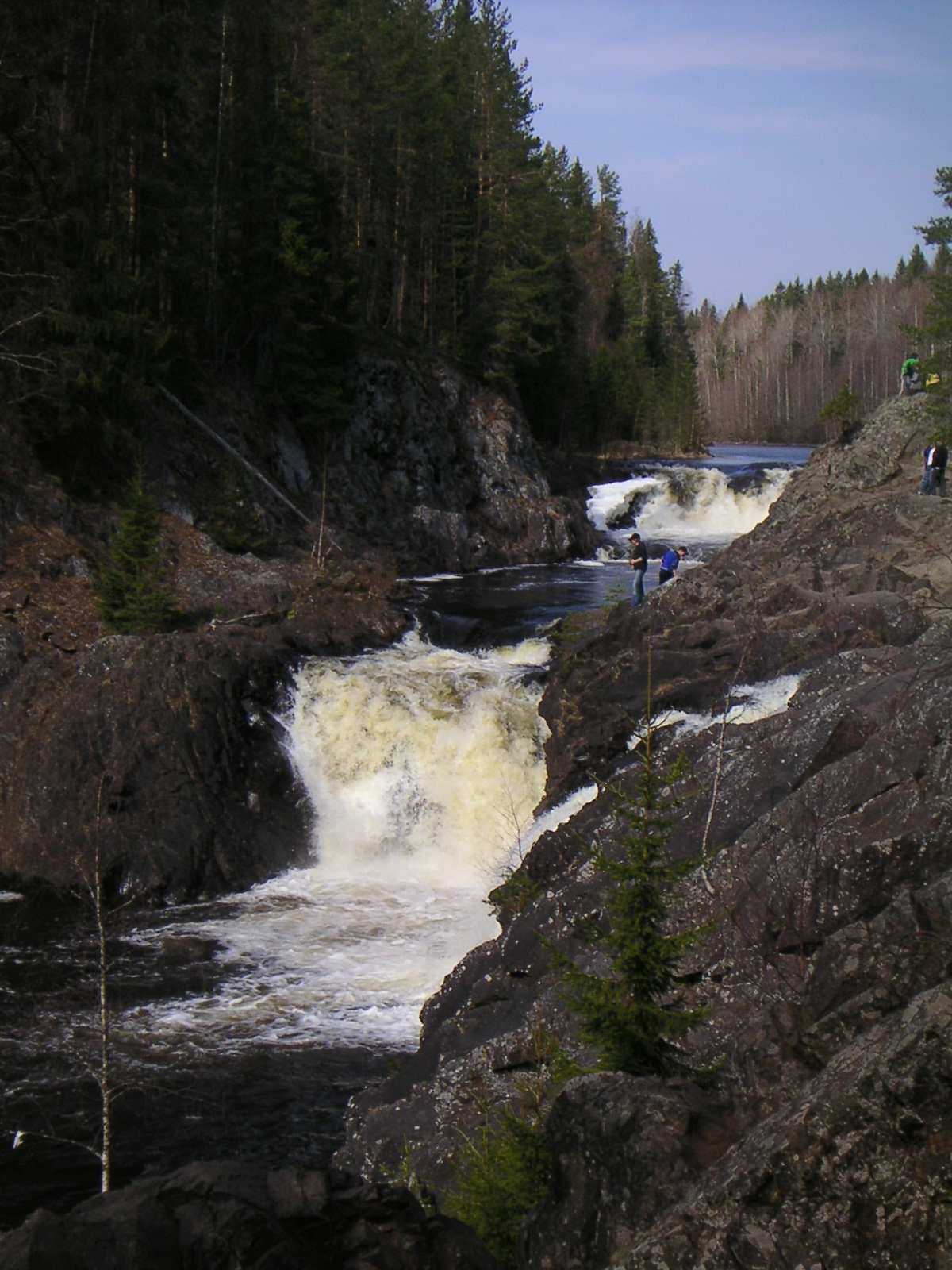 Photo taken by P.J. Didriksen, May 2006.